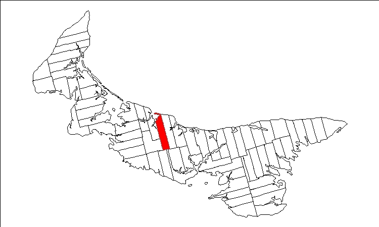 Public domain map of Prince Edward Island created by User:Plasma east with data courtesy of Geogratis, modified to show townships. Released under GFDL (self).